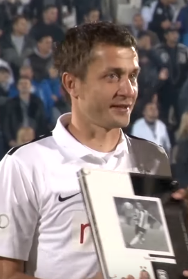 Saša Ilić before a friendly match between Partizan and PAOK on 8 October 2016